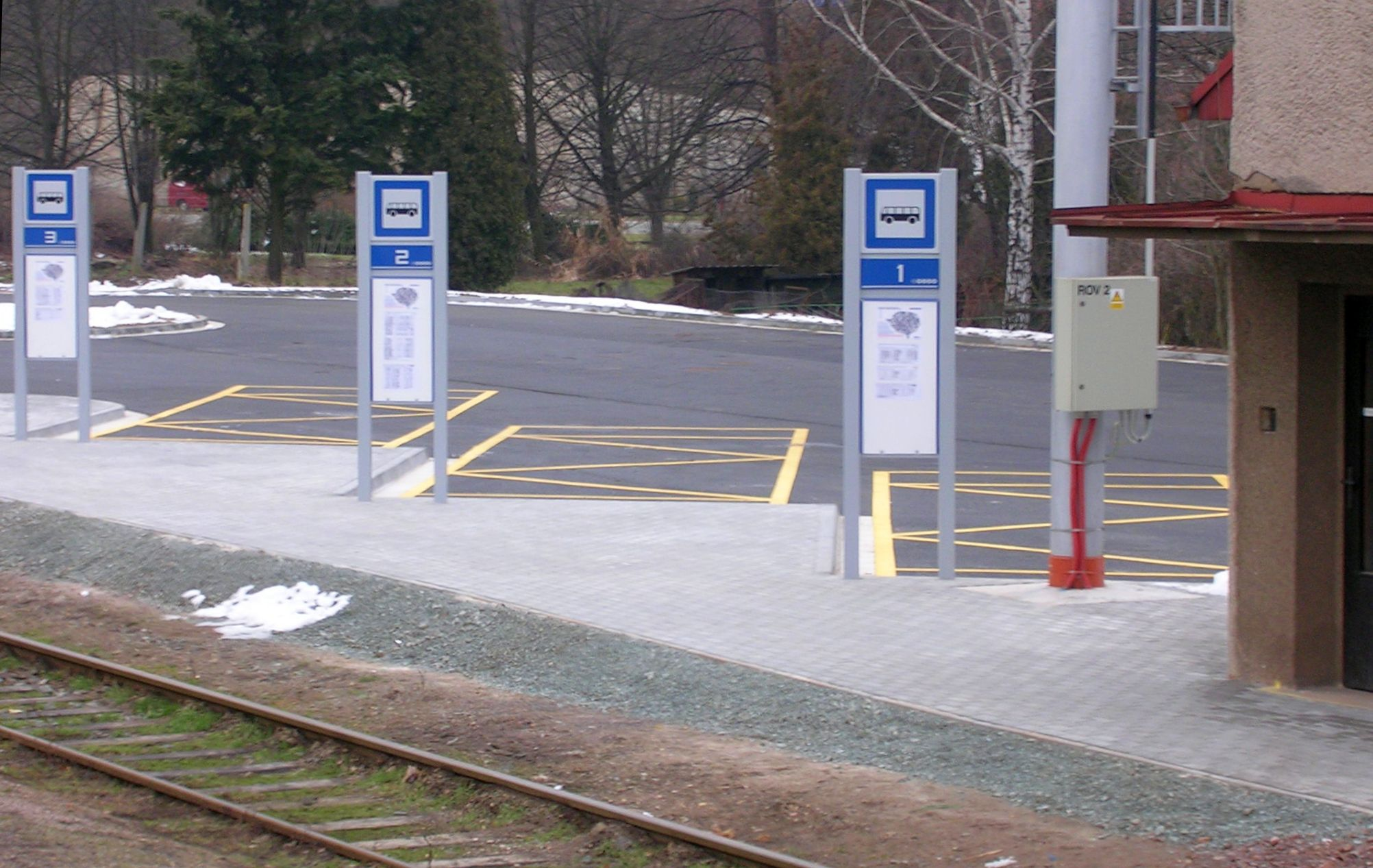 bus station Častolovice, front of the train station, Czech Republic